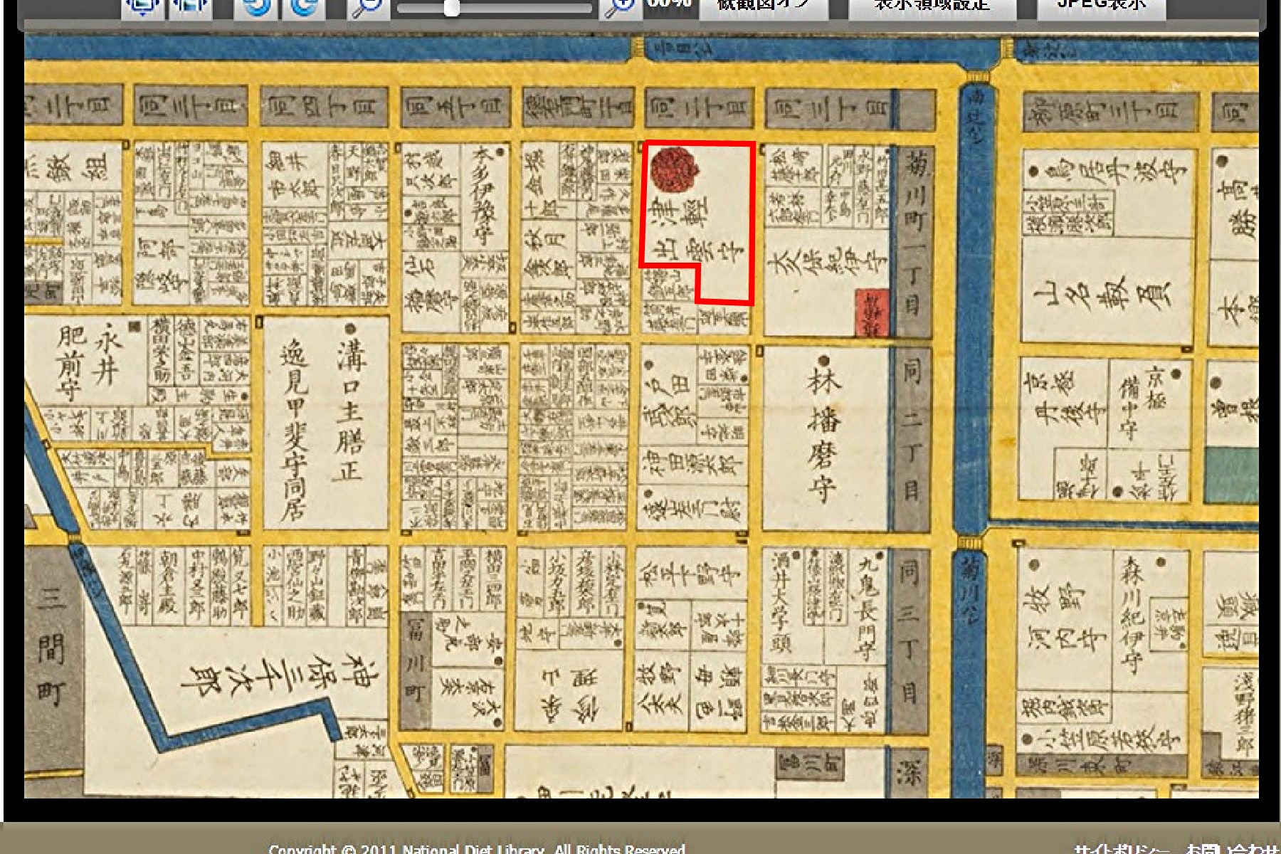 Residence Tsugaru clan at Edo 2